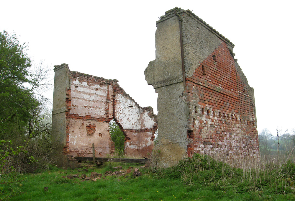 The remains of Junction House, on the Charnwood Forest Canal, at the junction of the Barrow Hill branch south of Osgathorpe. This is the only remaining building of the Charnwood Forest Canal.